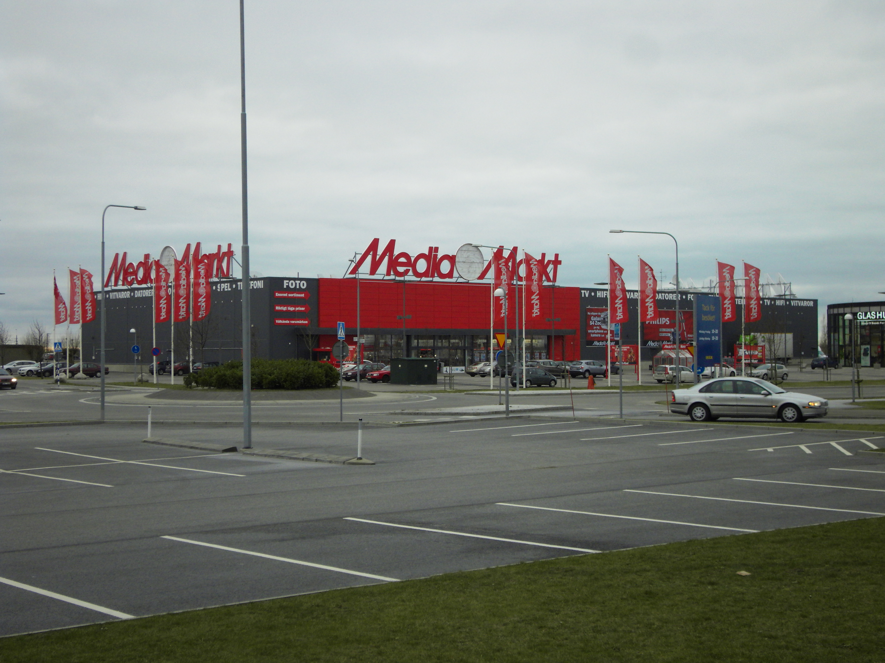 A Media Markt store in the neighbourhood Svågertorp in Malmo.